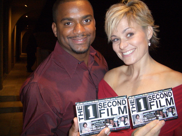 Alfonso Ribeiro, $10 Producer, and his wife. (This made sneaking into Kathy Griffen's x-mas party totally worth it.)